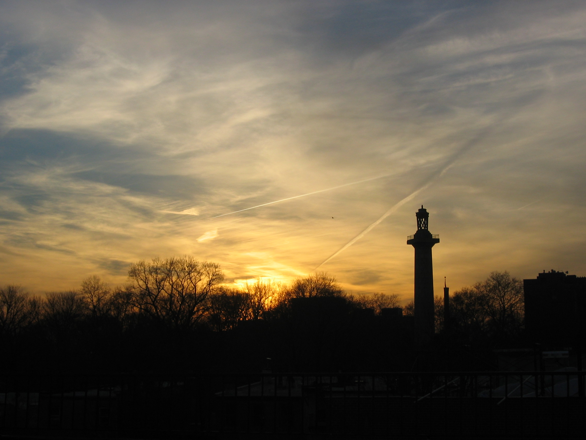 Sunset over Ft. Greene Park in Brooklyn, NY.